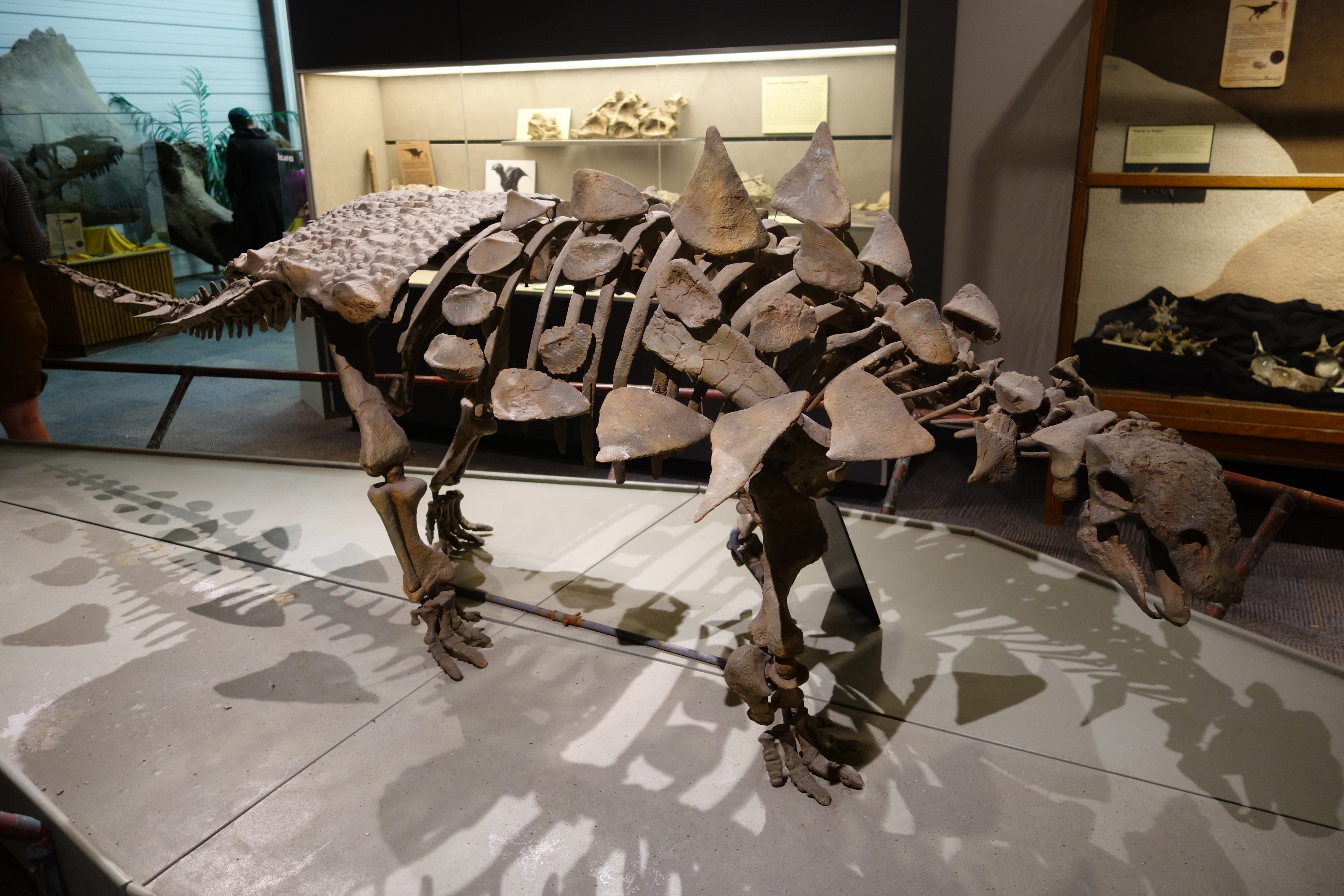 Gastonia burgei skeletal mount, on display at the BYU Museum of Paleontology.